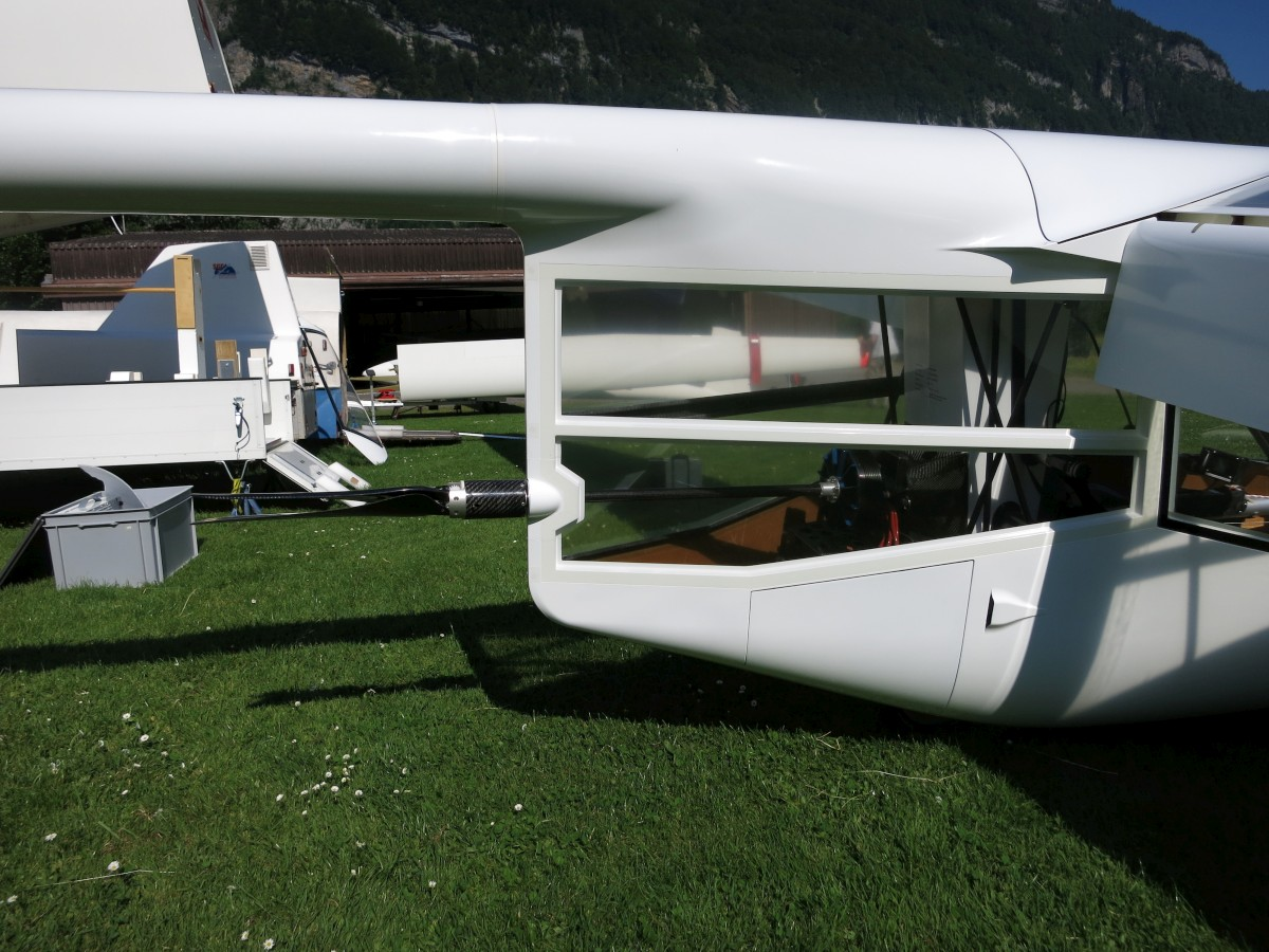 detail of electric motor and foldable propeller